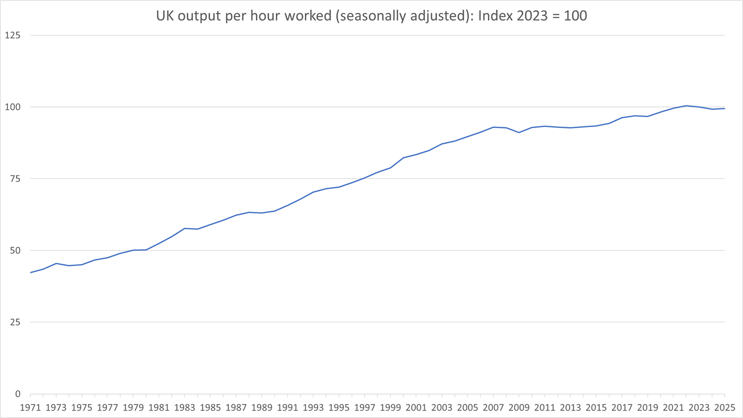 From ONS UK Whole Economy: Output per hour worked SA: Index 2016 = 100